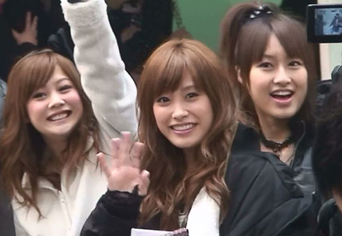 Risa Niigaki (left), Ai Takahashi (center) and Lin Lin (right) in Beijing, Dec. 2009